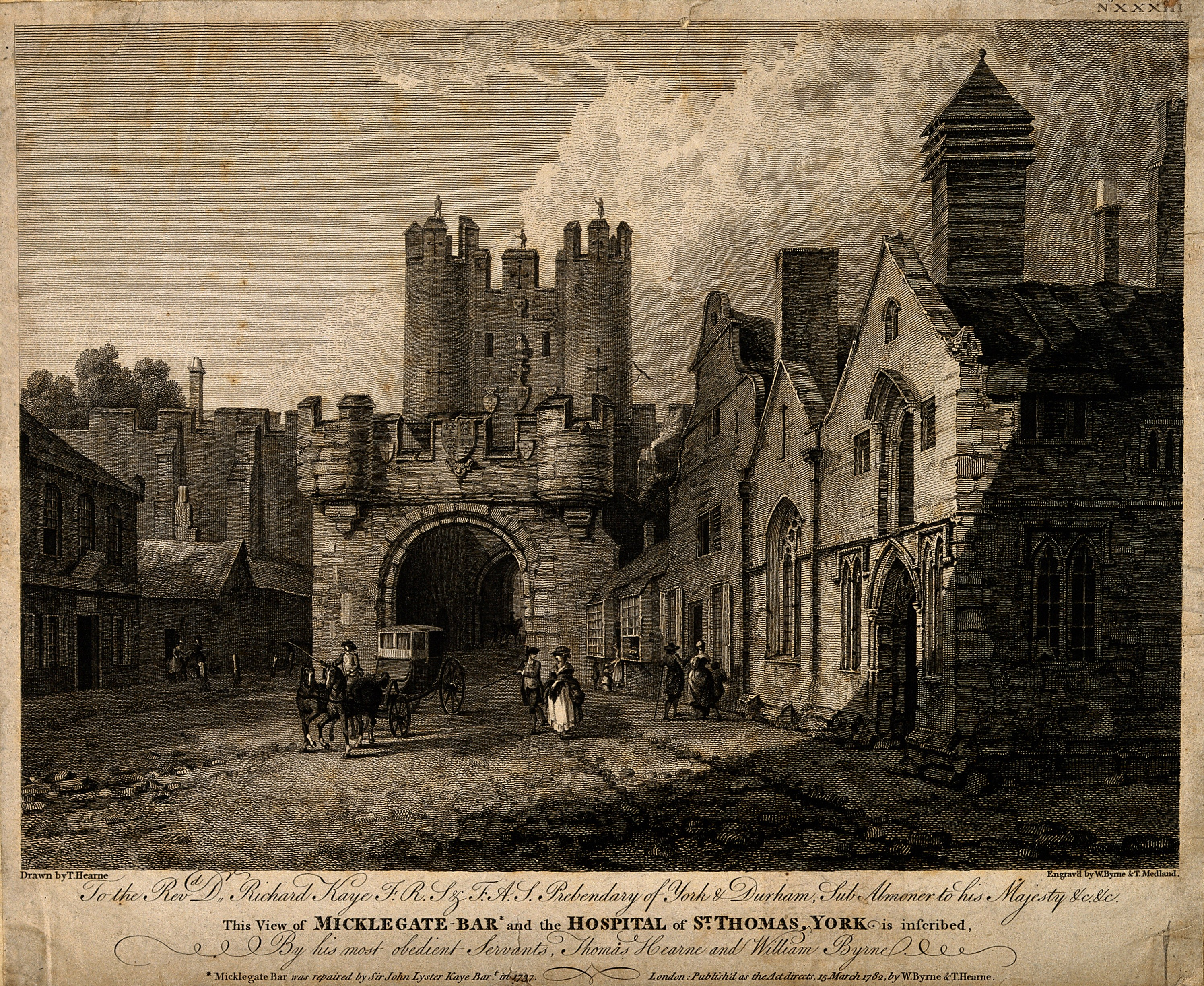 Micklegate Bar, Hospital of St. Thomas, York, England. Engraving by W. Byrne and T. Medland, 1782, after T. Hearne. Iconographic Collections Keywords: John Lyster Kaye; William S. Byrne; Richard Kaye; Thomas Hearne; Thomas Medland